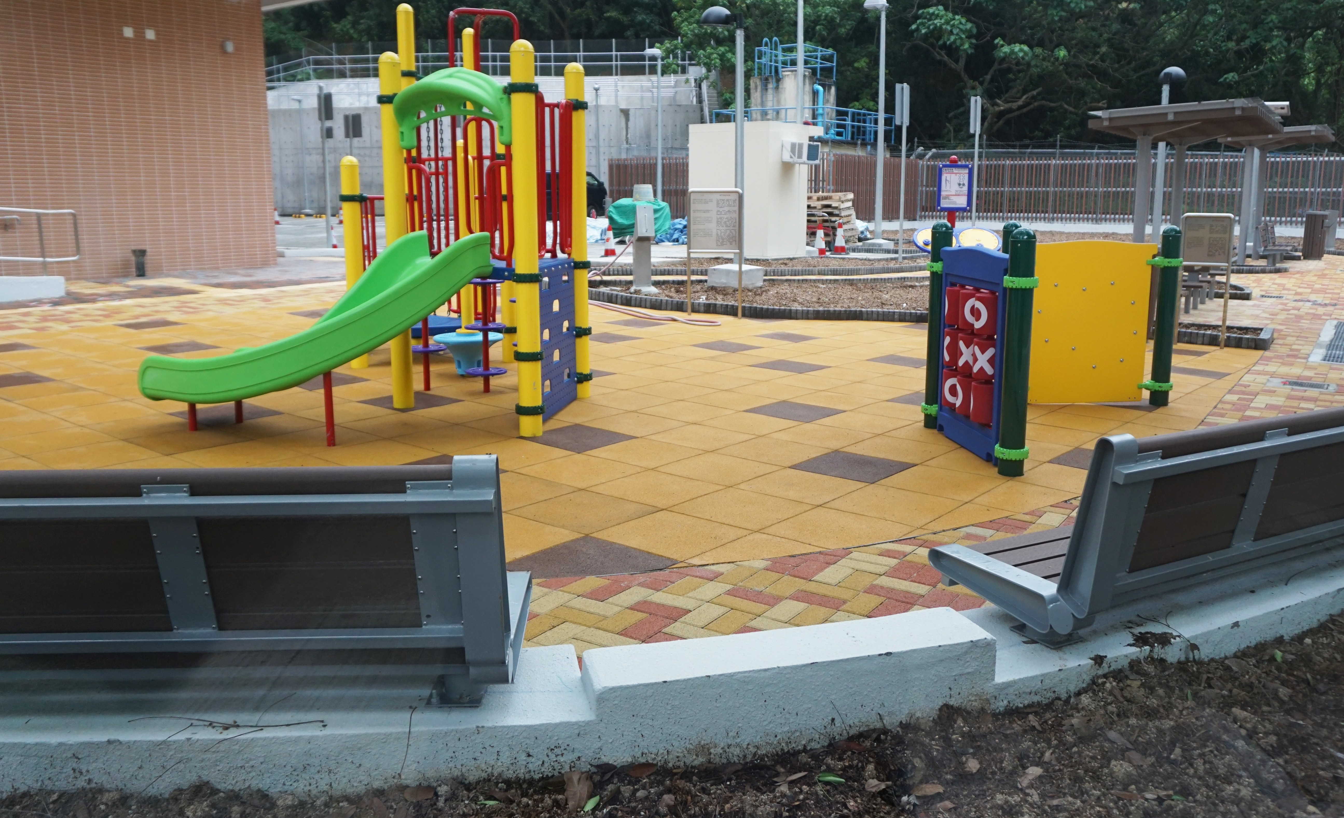 Mei Pak Court in Tai Wai, Hong Kong.